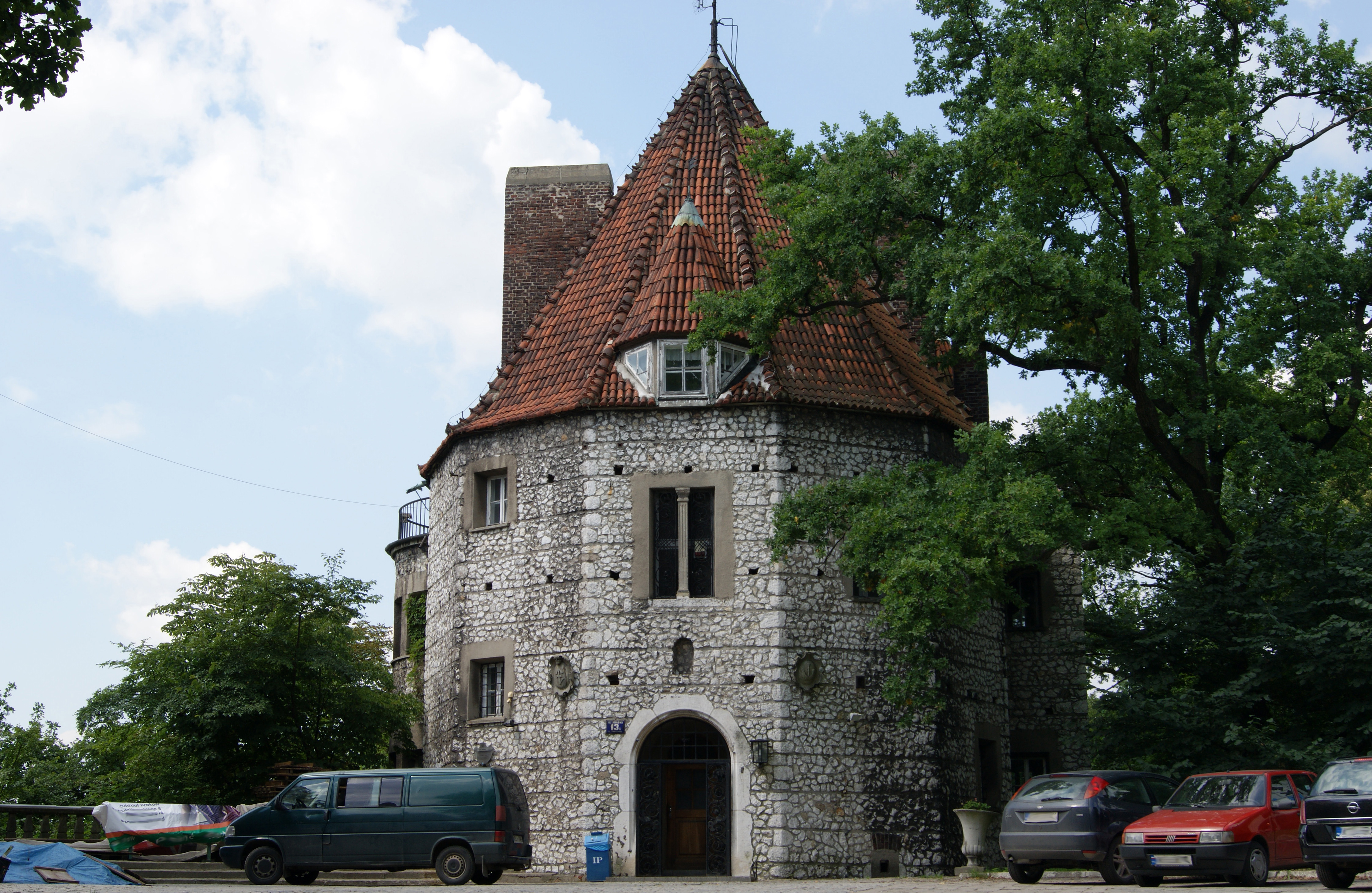 Baszta (The Tower) Villa, 13a Jodlowa street, Przegorzaly, Krakow, Poland